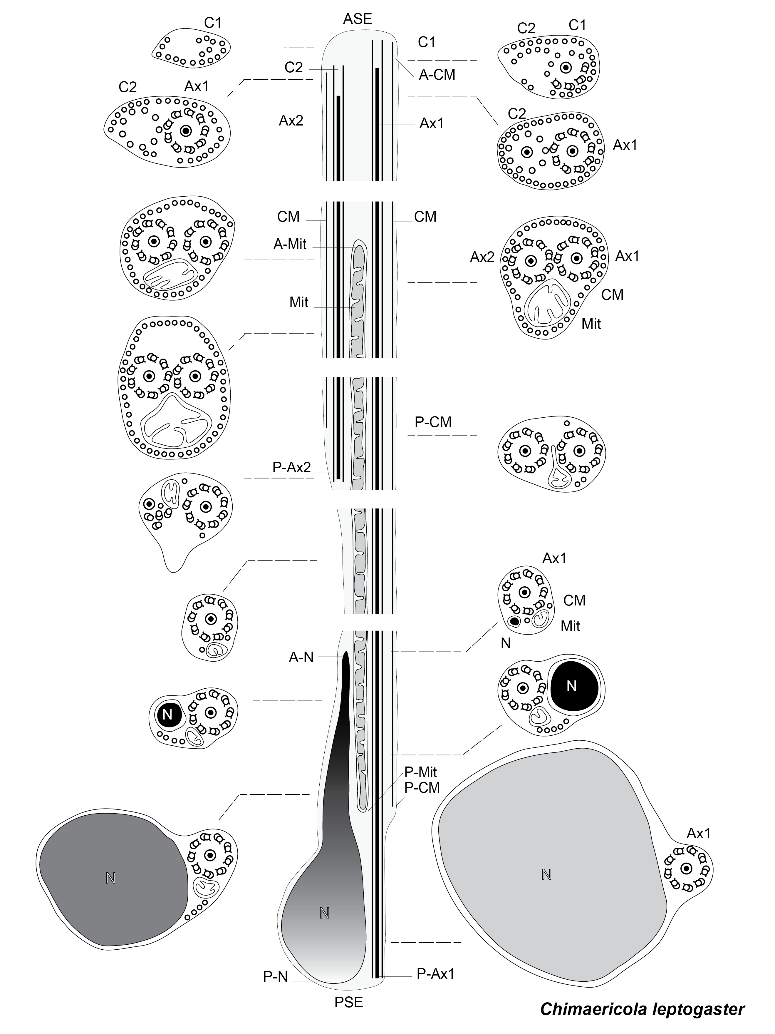 Figure 13 of the paper. Schematic reconstruction of the spermatozoon of Chimaericola leptogaster.